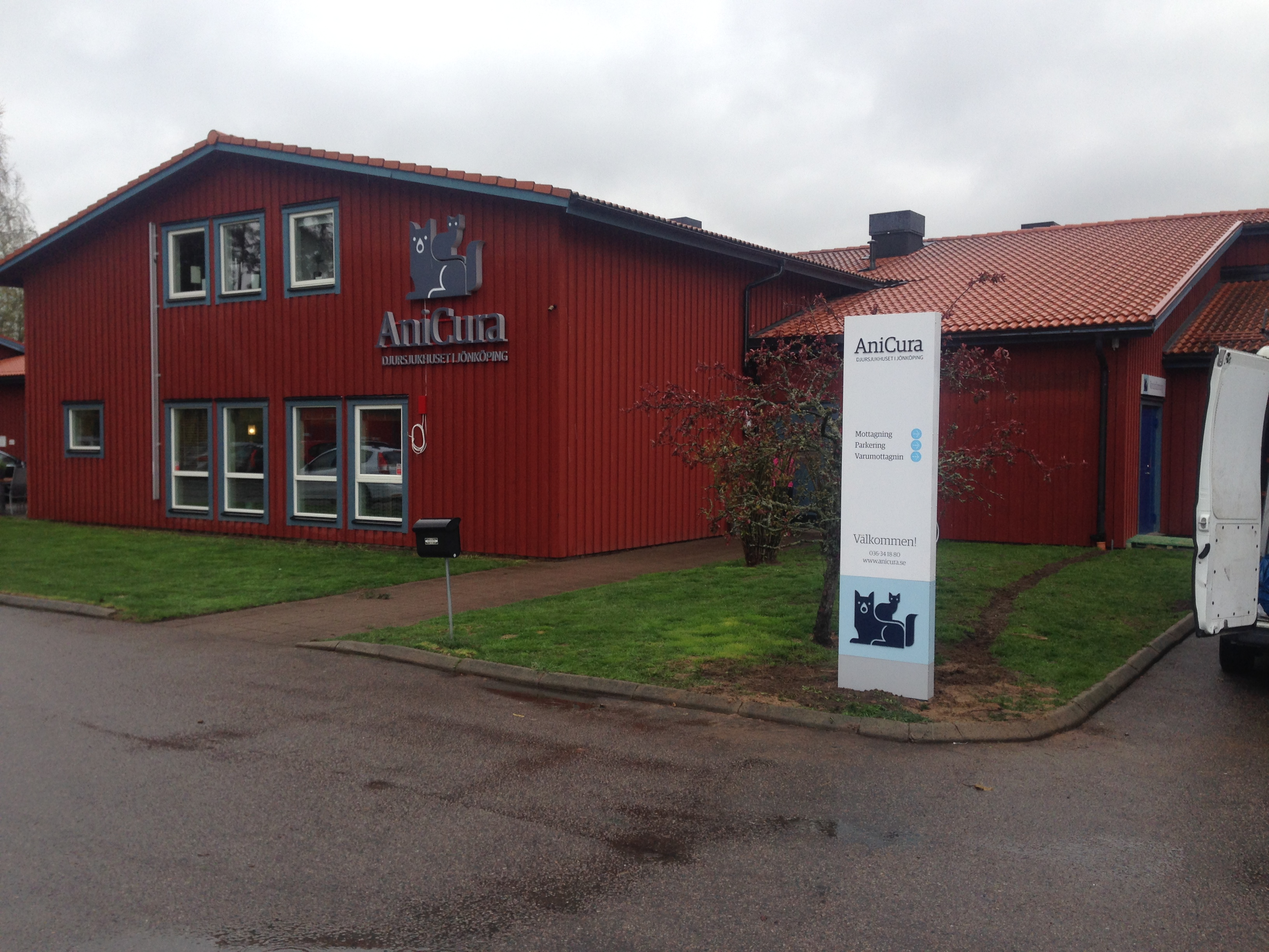 Animal hospital